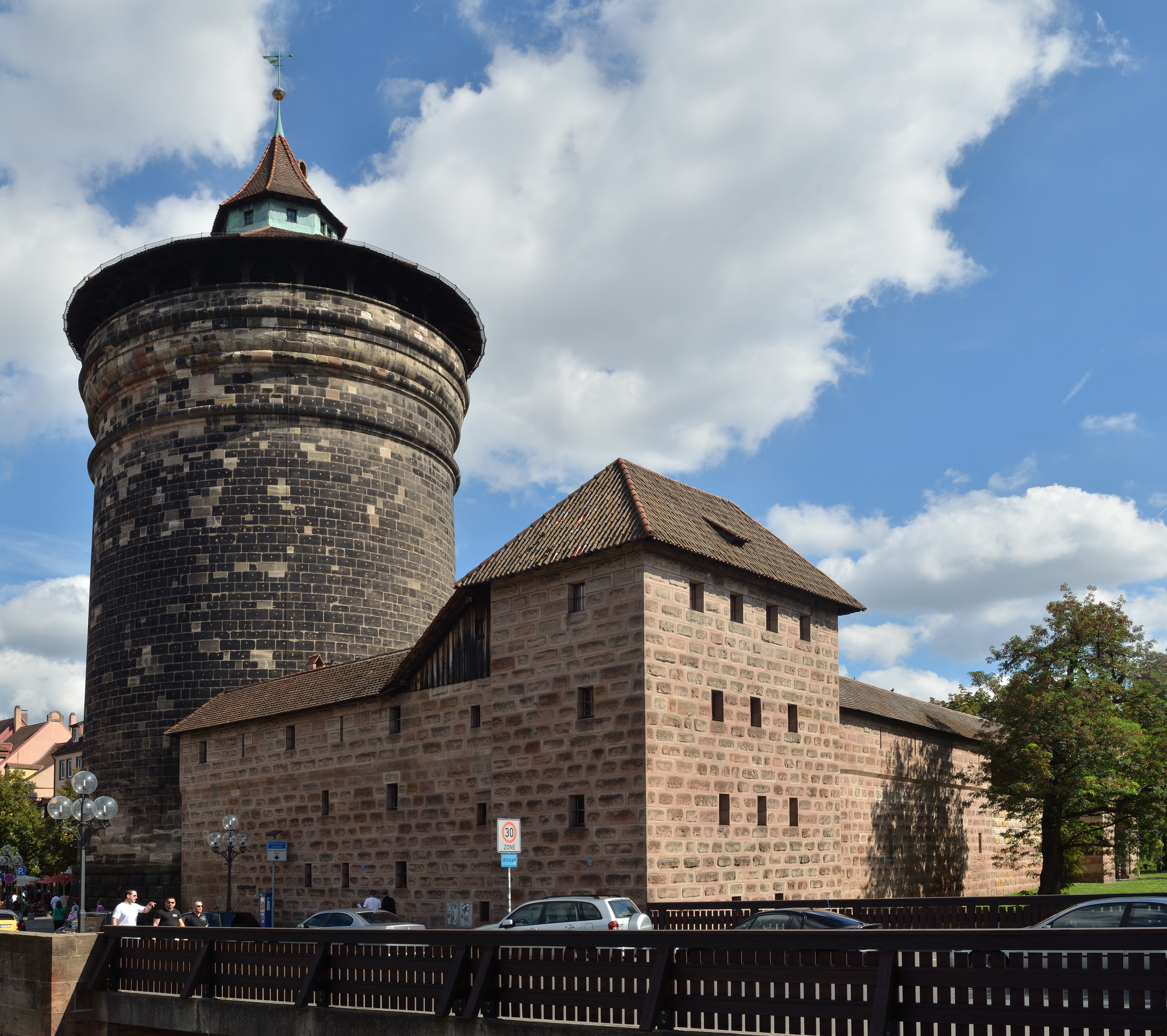 "Spittlertor" in Nuremberg, Germany. It is a two segment panoramic image.